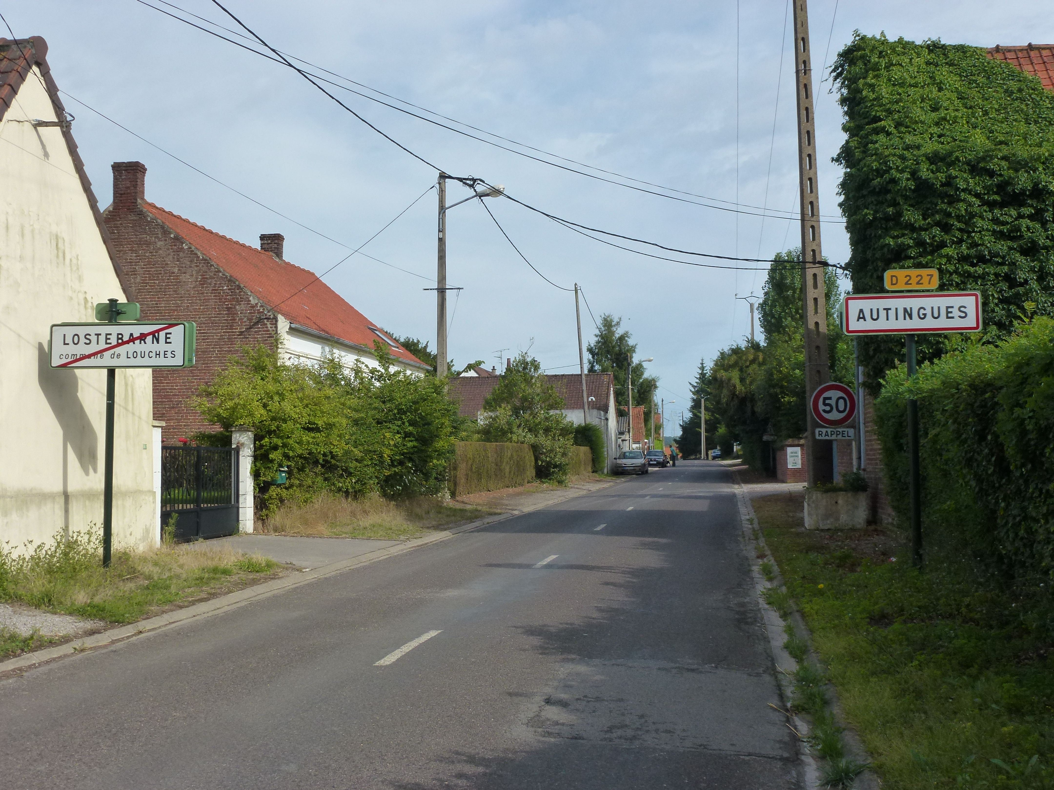 Autingues (Pas-de-Calais) city limit sign